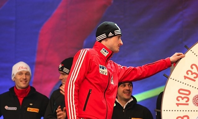 Jakub Janda during Adam's Bull's Eye on March 26, 2011 in Zakopane.